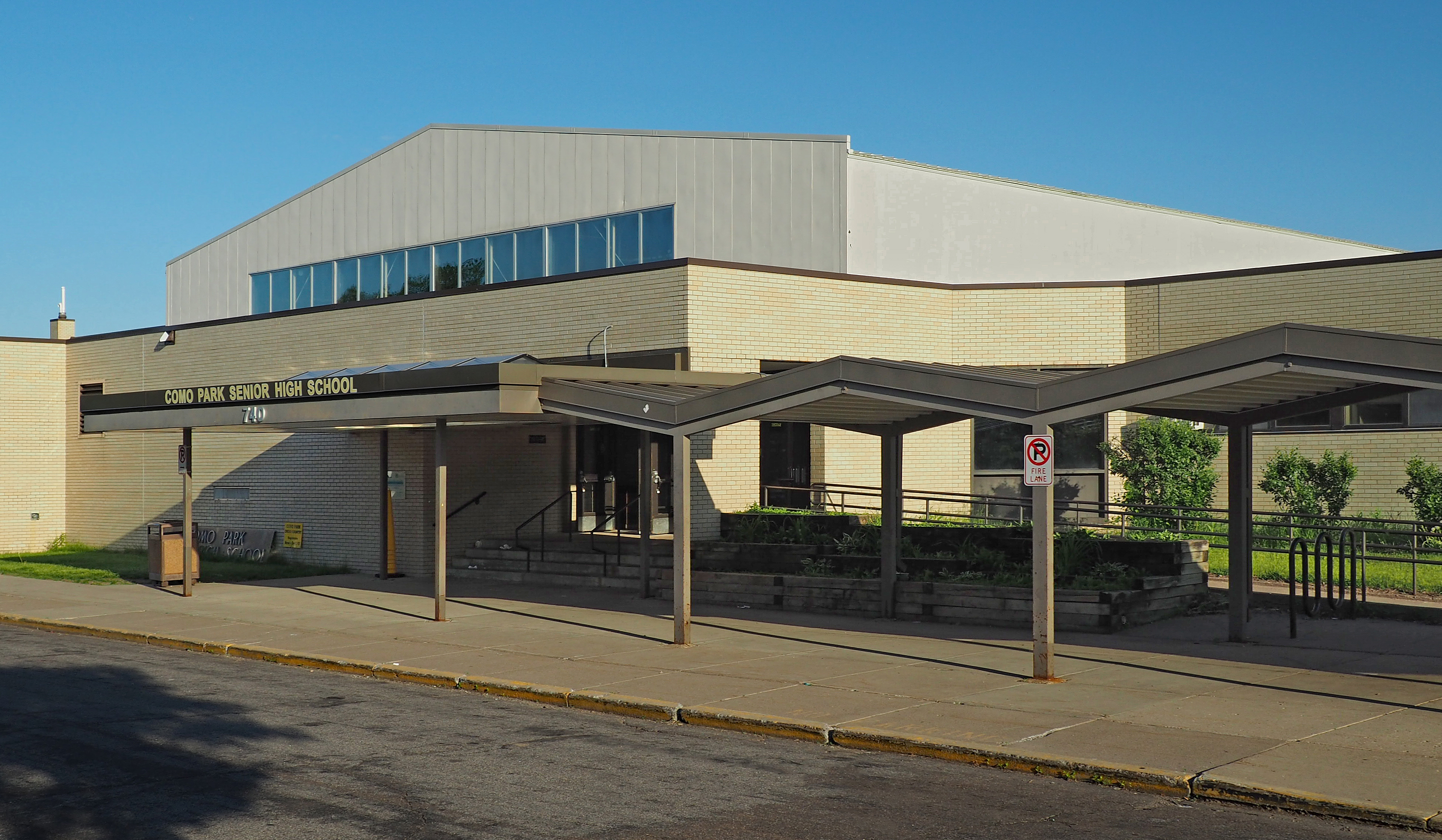 Como Park Senior High School, 740 Rose Ave W, St Paul, Minnesota, USA. Viewed from the northwest.